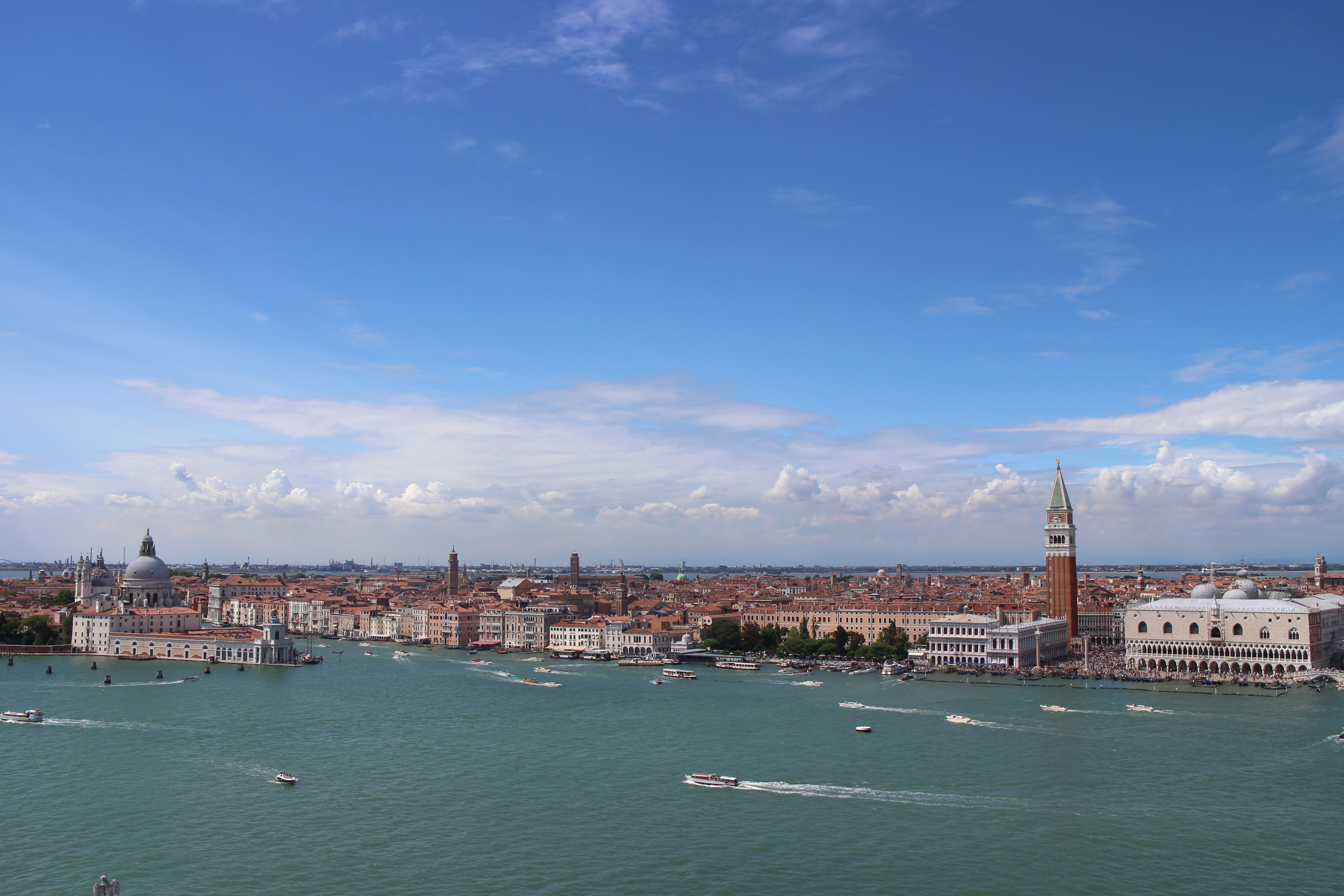 Views from the Campanile of Basilica di San Giorgio Maggiore (Venice)